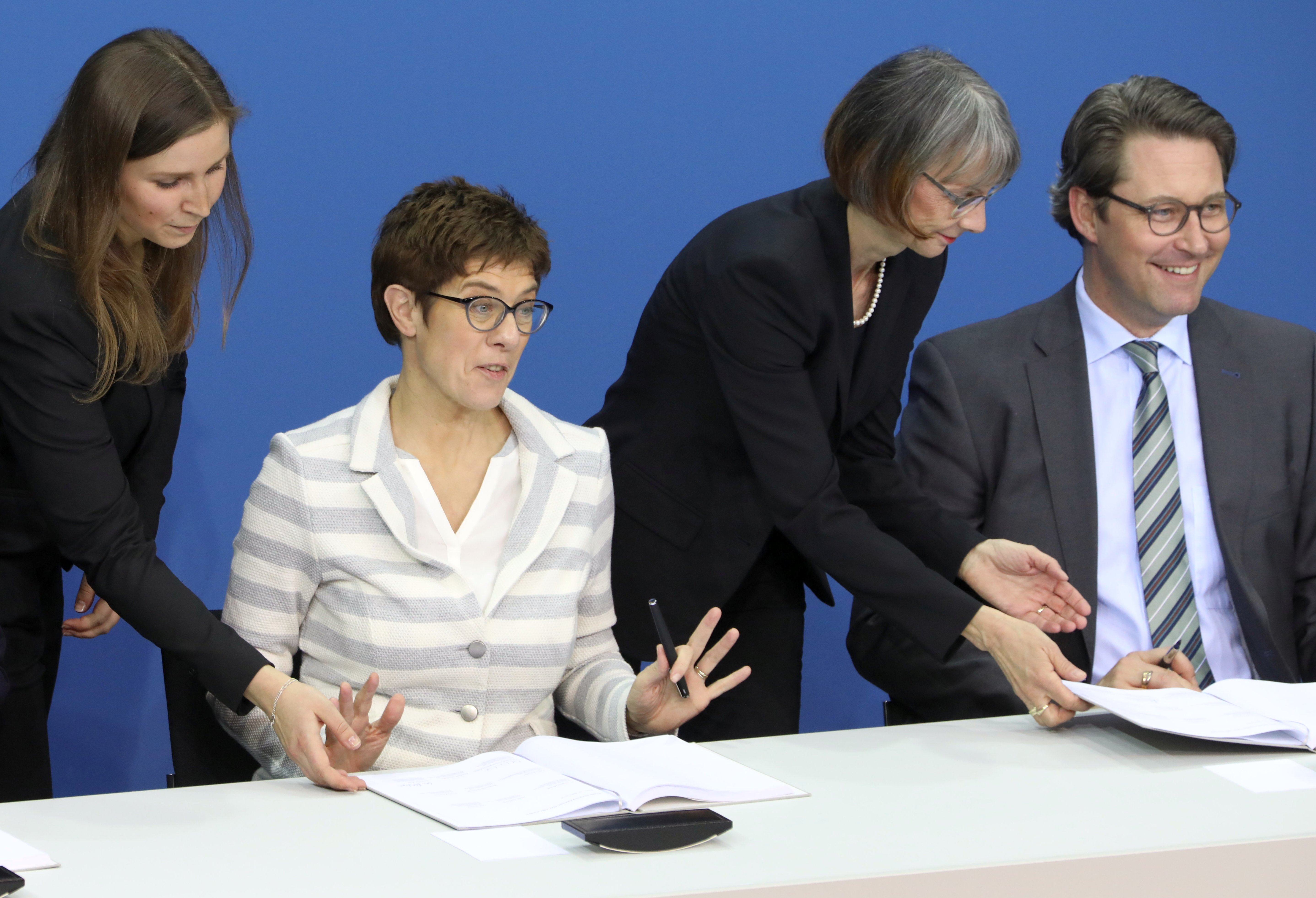 Signing of the coalition agreement for the 19th election period of the Bundestag: Annegret Kramp-Karrenbauer, Andreas Scheuer